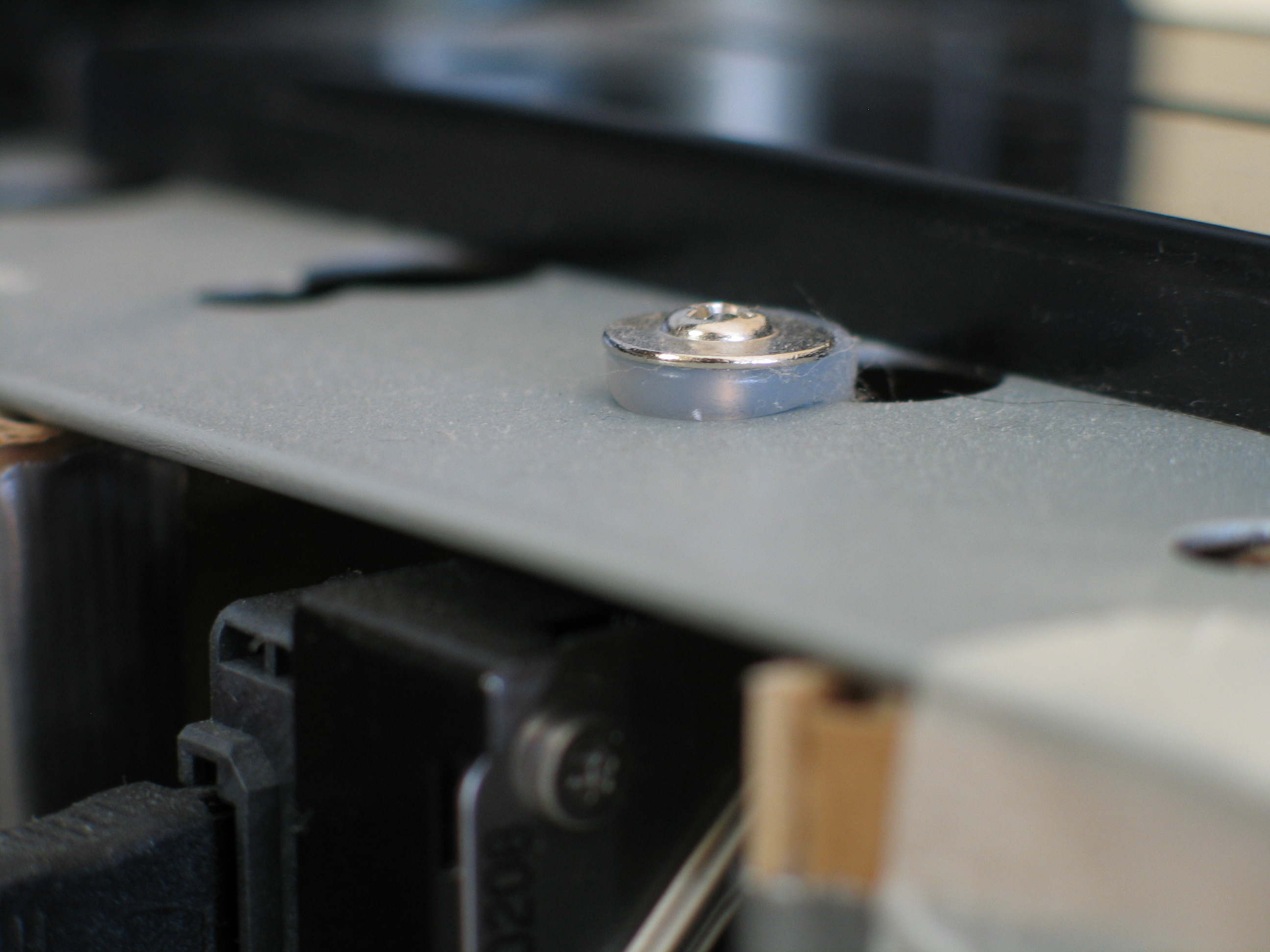 The silicone grommets used to isolate the vibration from a hard drive in a silent PC. The interior of the case shown here is the Antec P180.